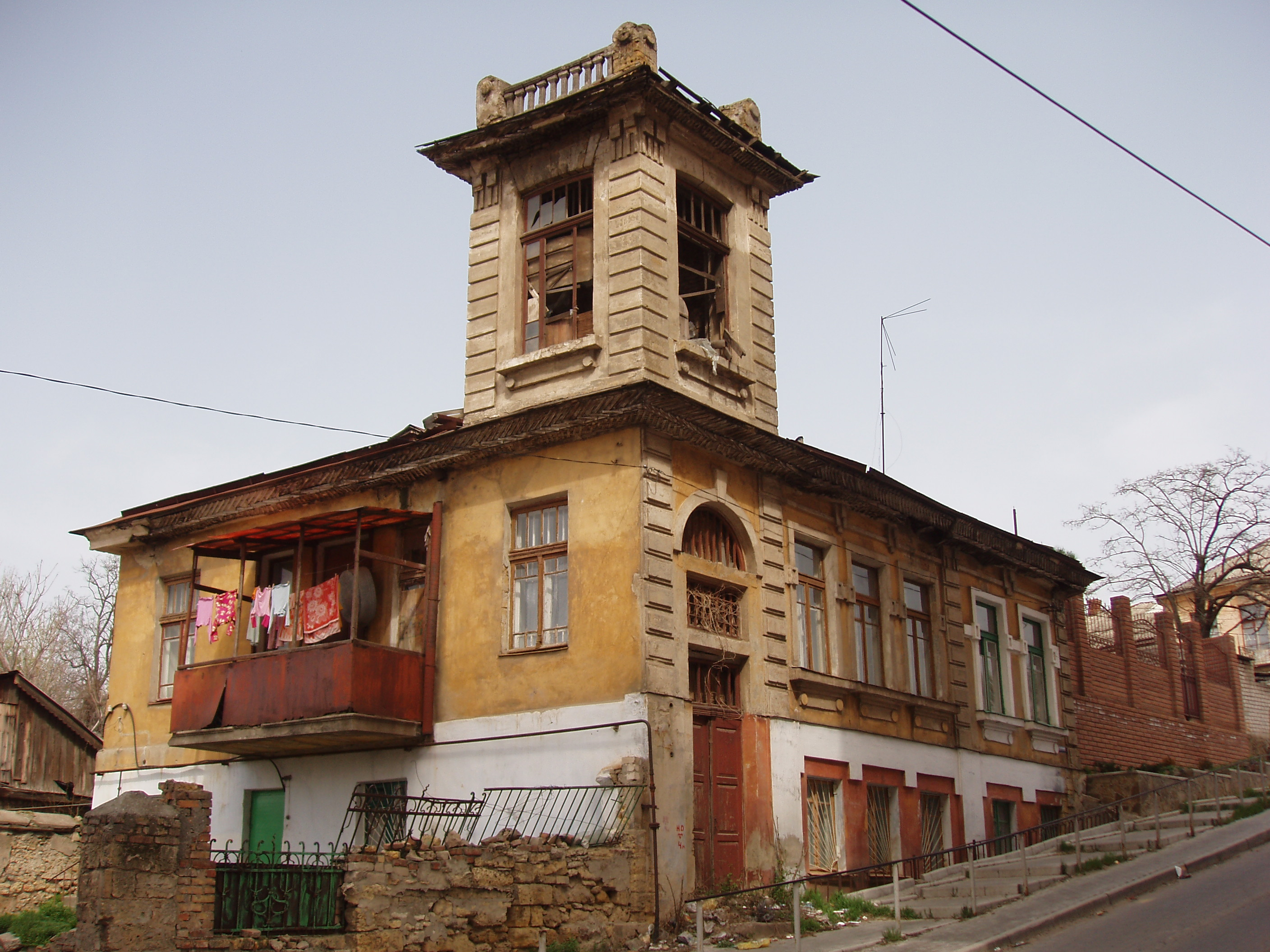 Leon Trotsky parents house in Kherson city, Ukraine